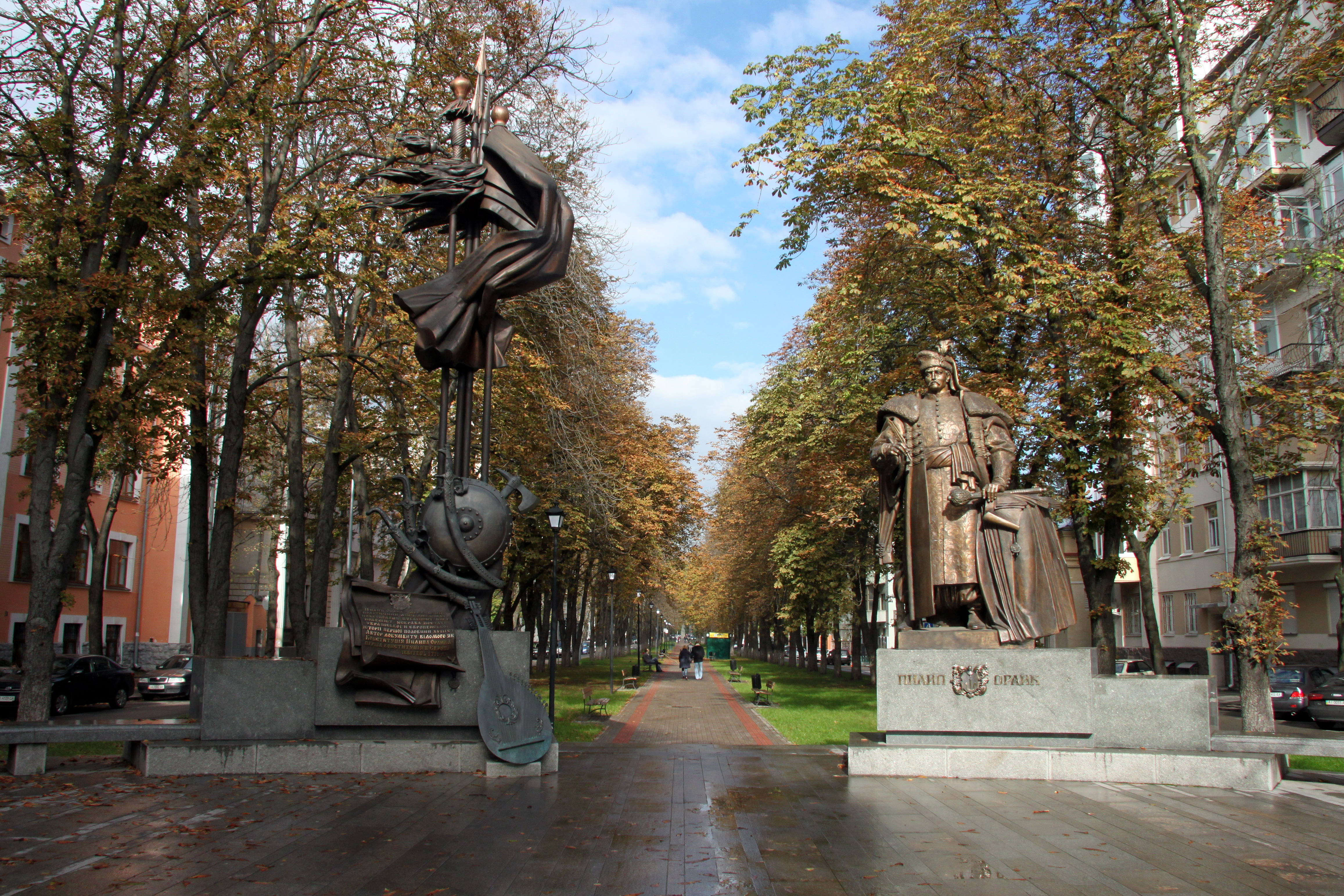 Memorials by Anatoliy Kushch. - Pylypa Orlyka Street, Kiev